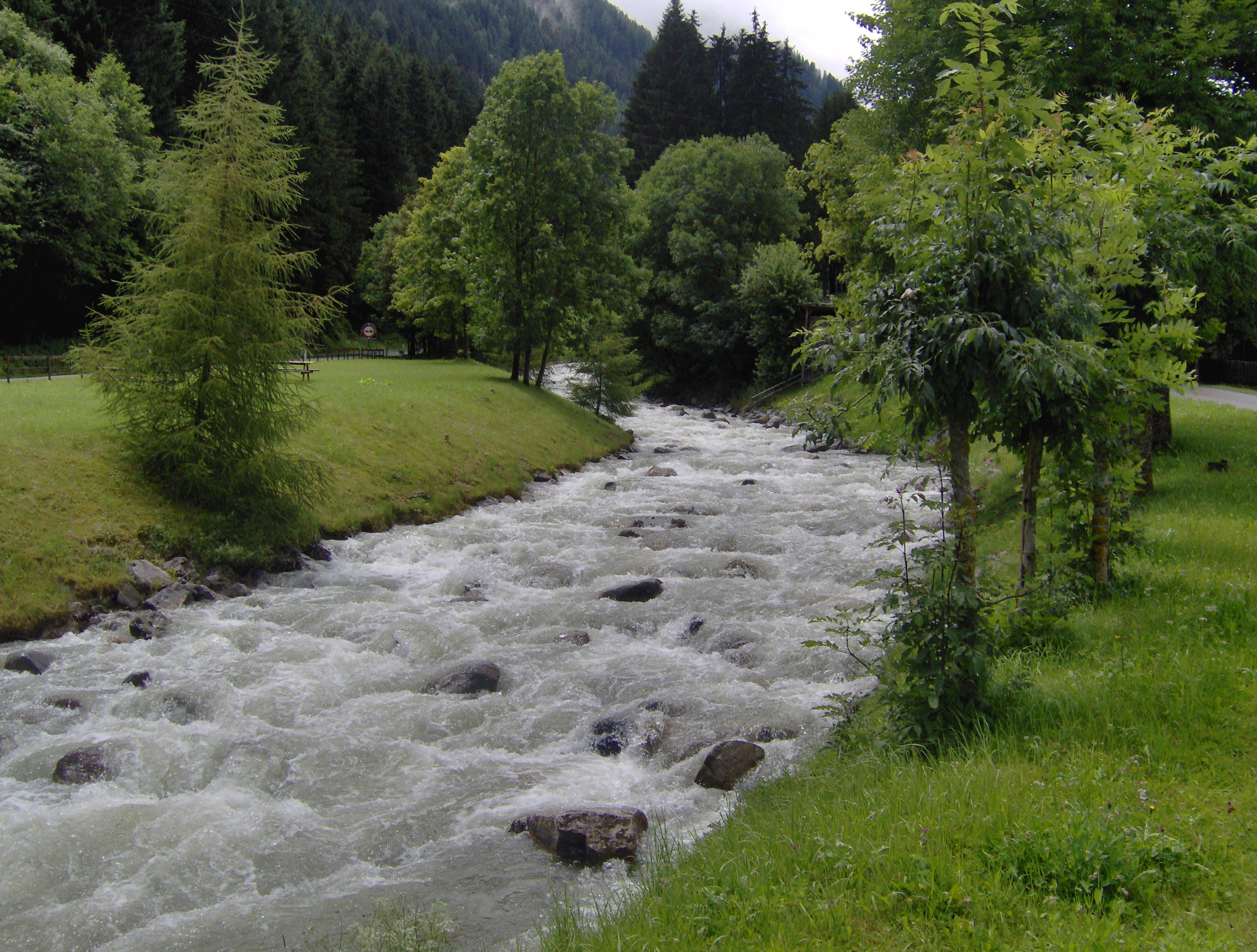 The Melach river, a tributary of the Inn river, in the Sellrain Valley in Tyrol, Austria. View upriver.